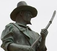 Photograph of Wiebbe Hayes statue in Garaldton, Western Australia